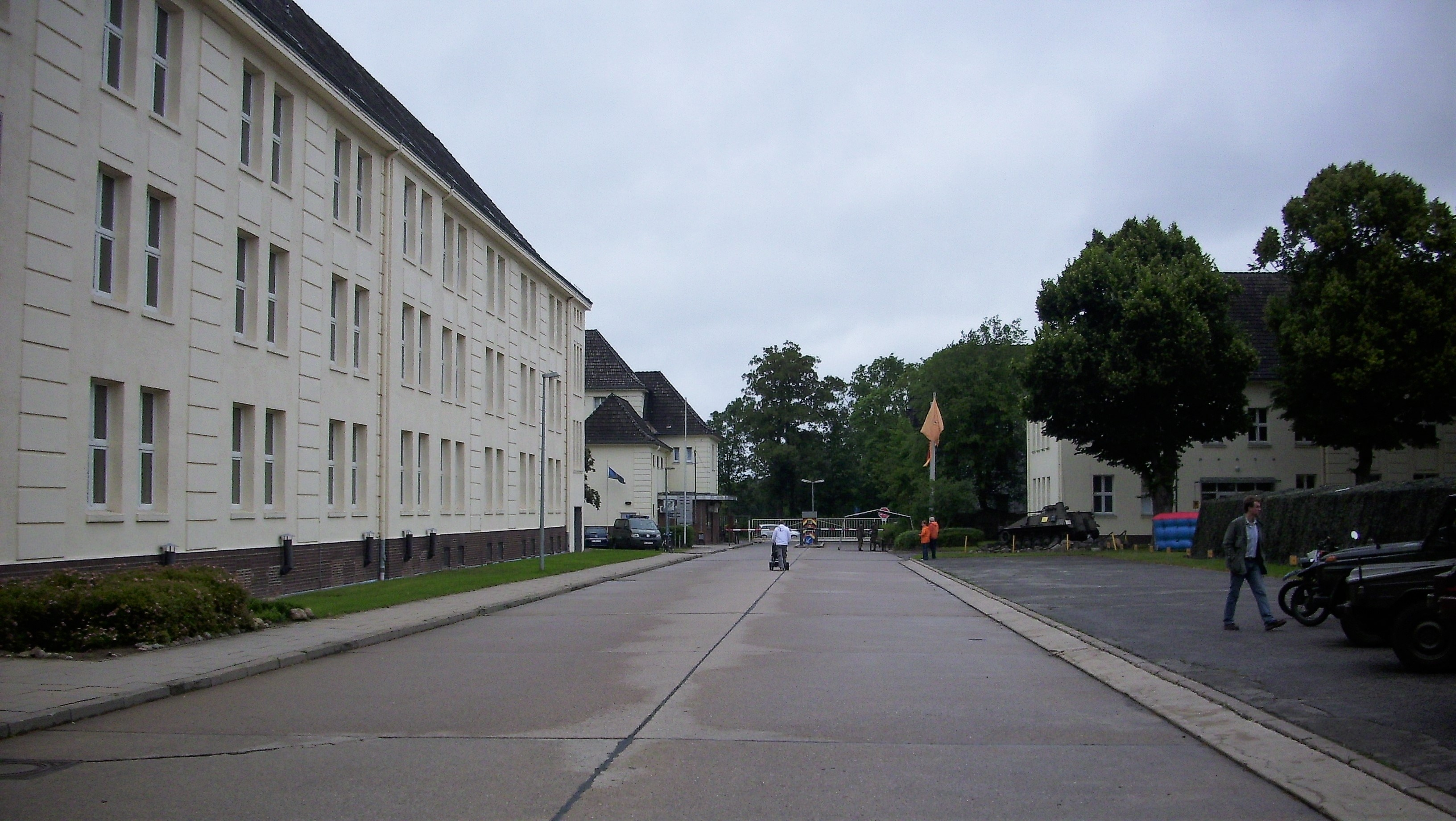 Rettberg-Kaserne (Rettberg Barracks) in Eutin, Schleswig-Holstein, Germany, at open House July 2nd 2011.